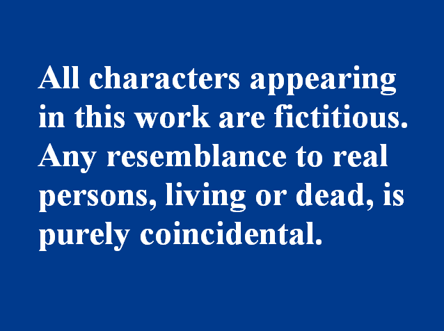 "All persons fictitious" disclaimer in English, loosely based on Japanese versions of disclaimers (one color background with text in contrasting color, usually white).